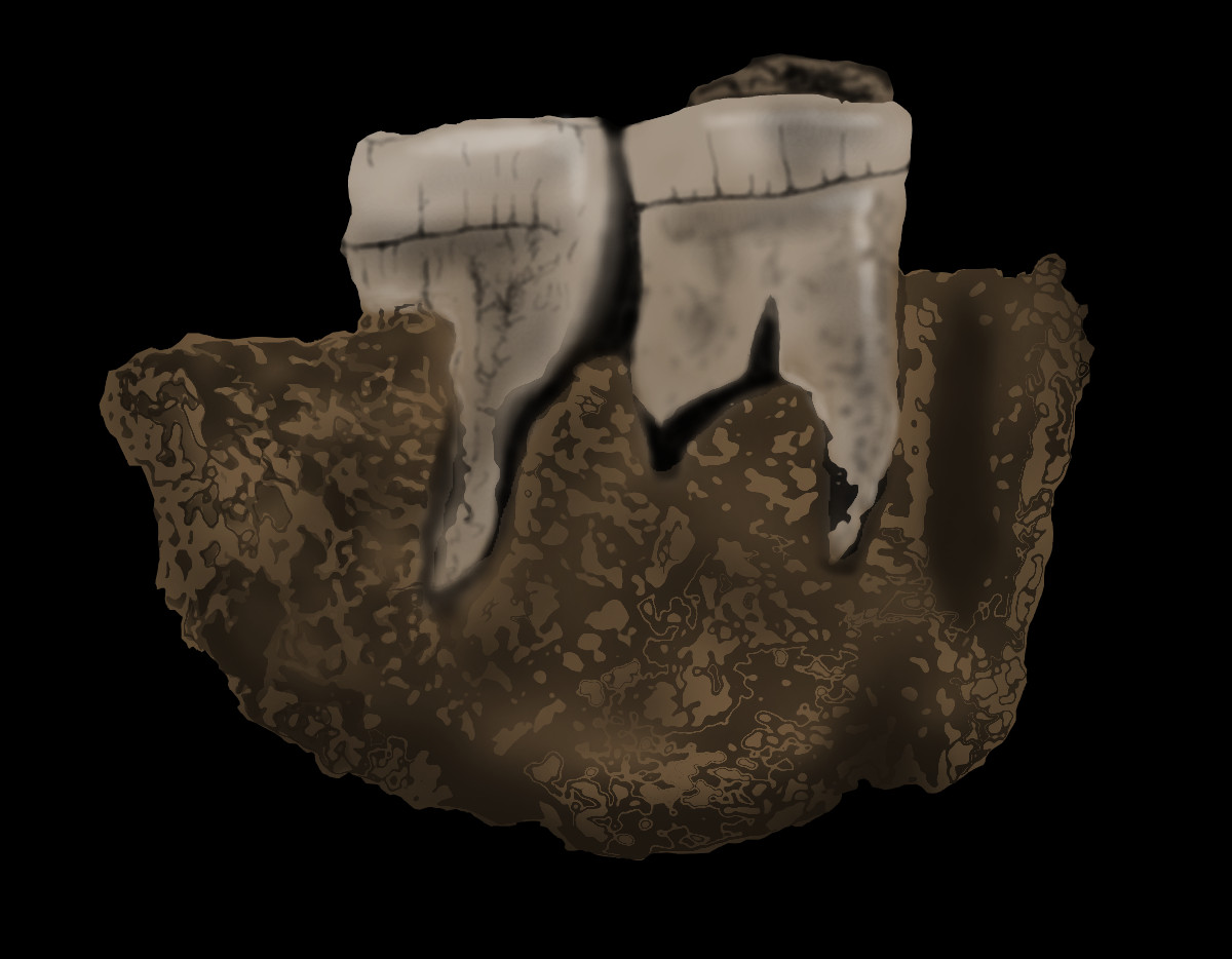 Mandible fragment from Galería